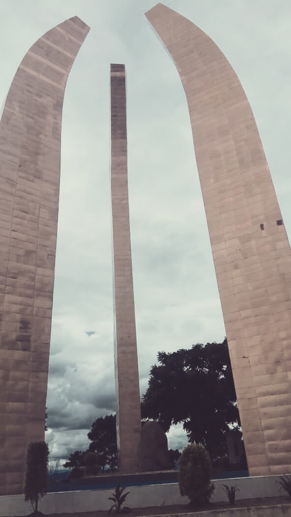 KHONGJOM WAR MEMORIAL ꯃꯤꯇꯩ ꯂꯣꯟ: ꯈꯣꯡꯖꯣꯝ ꯂꯥꯟ ꯅꯤꯡꯁꯤꯡ ꯈꯨꯕꯝ